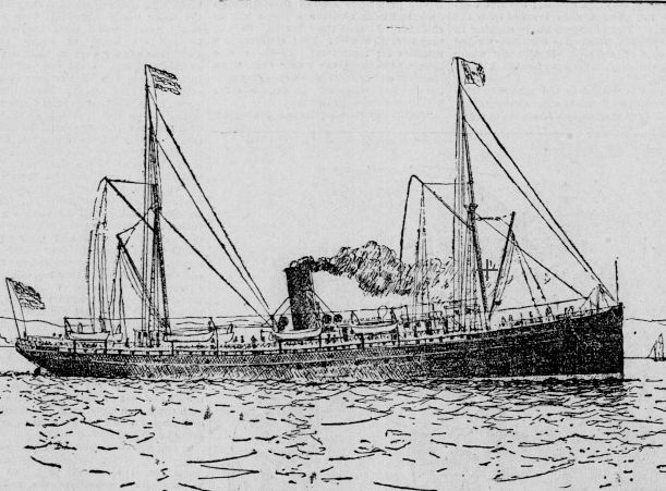 An illustration of the steamer San Juan, which appeared in an 1895 issue of the San Francisco Call